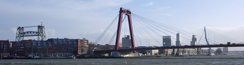 Three bridges in Rotterdam: from left to right De Hef, the Willems bridge and the Erasmus bridge.